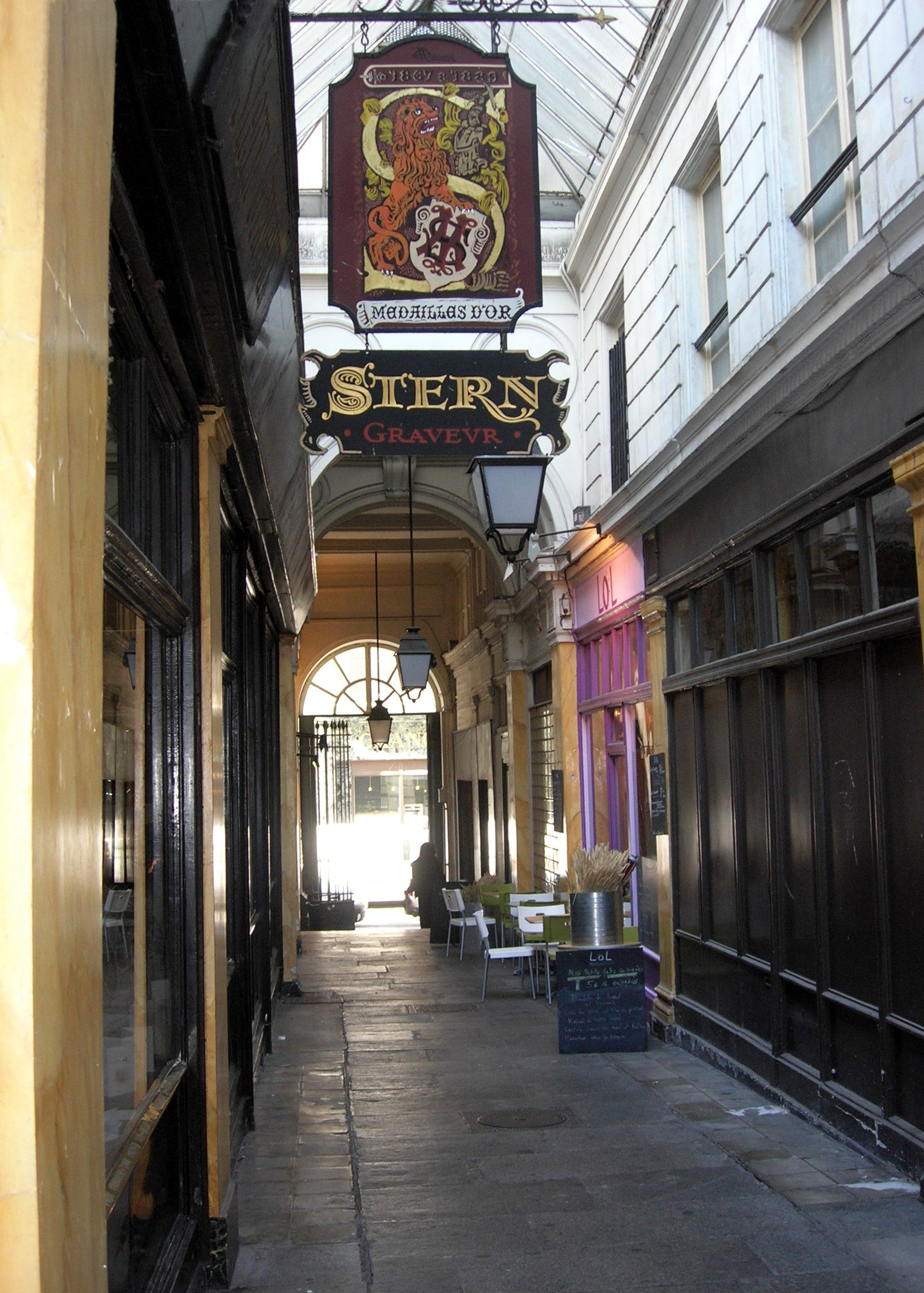 Description =Passage des Panoramas Source =Photo taken by Remi Jouan Date =Novembre 2006 Author =Remi Jouan